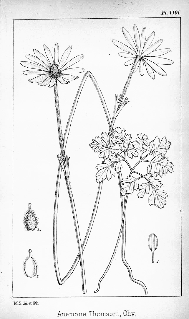 Drawing of Anemone thomsonii, made by M. Smith and published in Hooker, W.J., Hooker, J.D., Icones Plantarum [Hooker’s Icones plantarum], vol. 15: t. 1491 (1885)